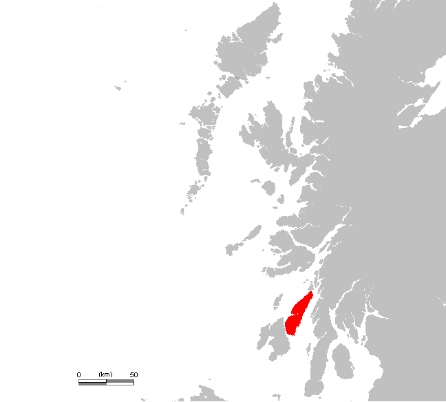 UK Jura.PNG (Scotland, Hebrides)